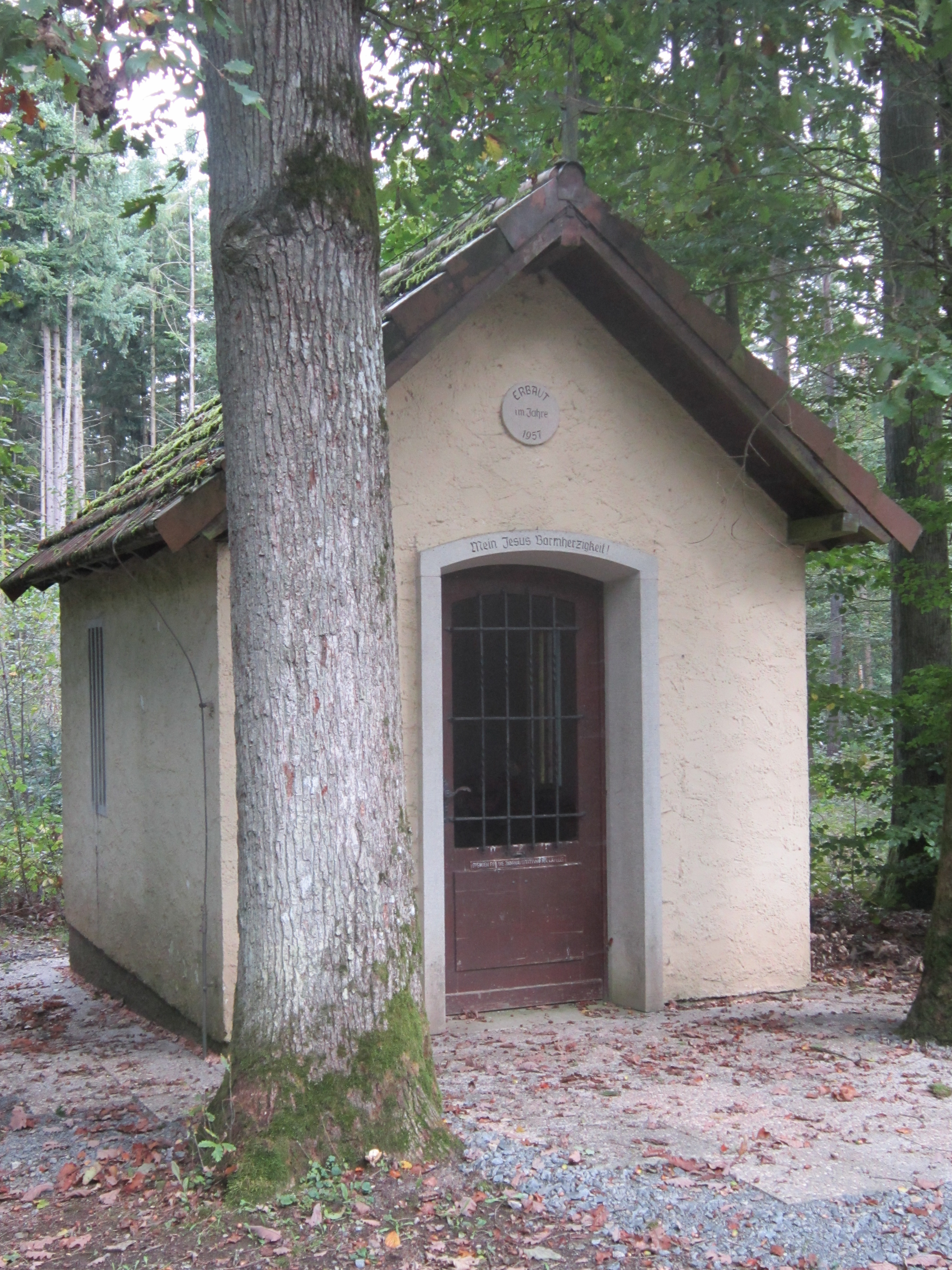 The "Kreuzkapelle" in Garitz, a quarter of the German spa town of Bad Kissingen in Lower Franconia (Bavaria).